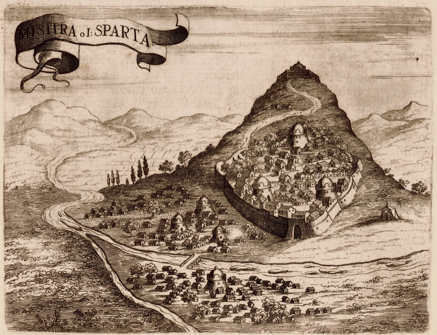 View of Mistra by Coronelli